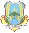 Coat of arms of the former Oblesevo Municipality, Macedonia.